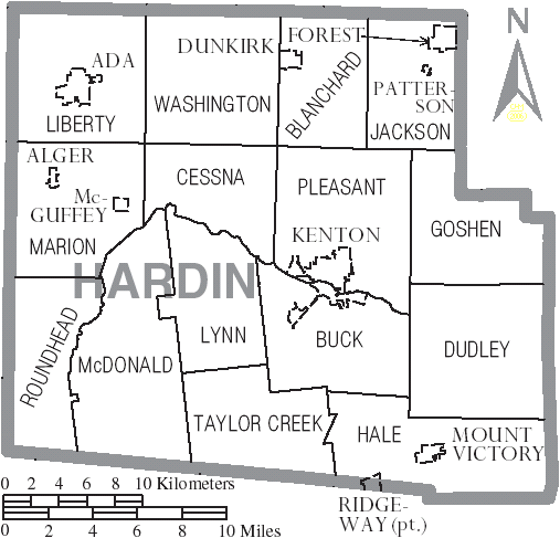 Map of Hardin County, Ohio, United States with township and municipal boundaries